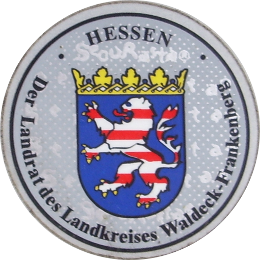 Adhesive seal of a German motor vehicle registration plate: district of Waldeck-Frankenberg, Hesse